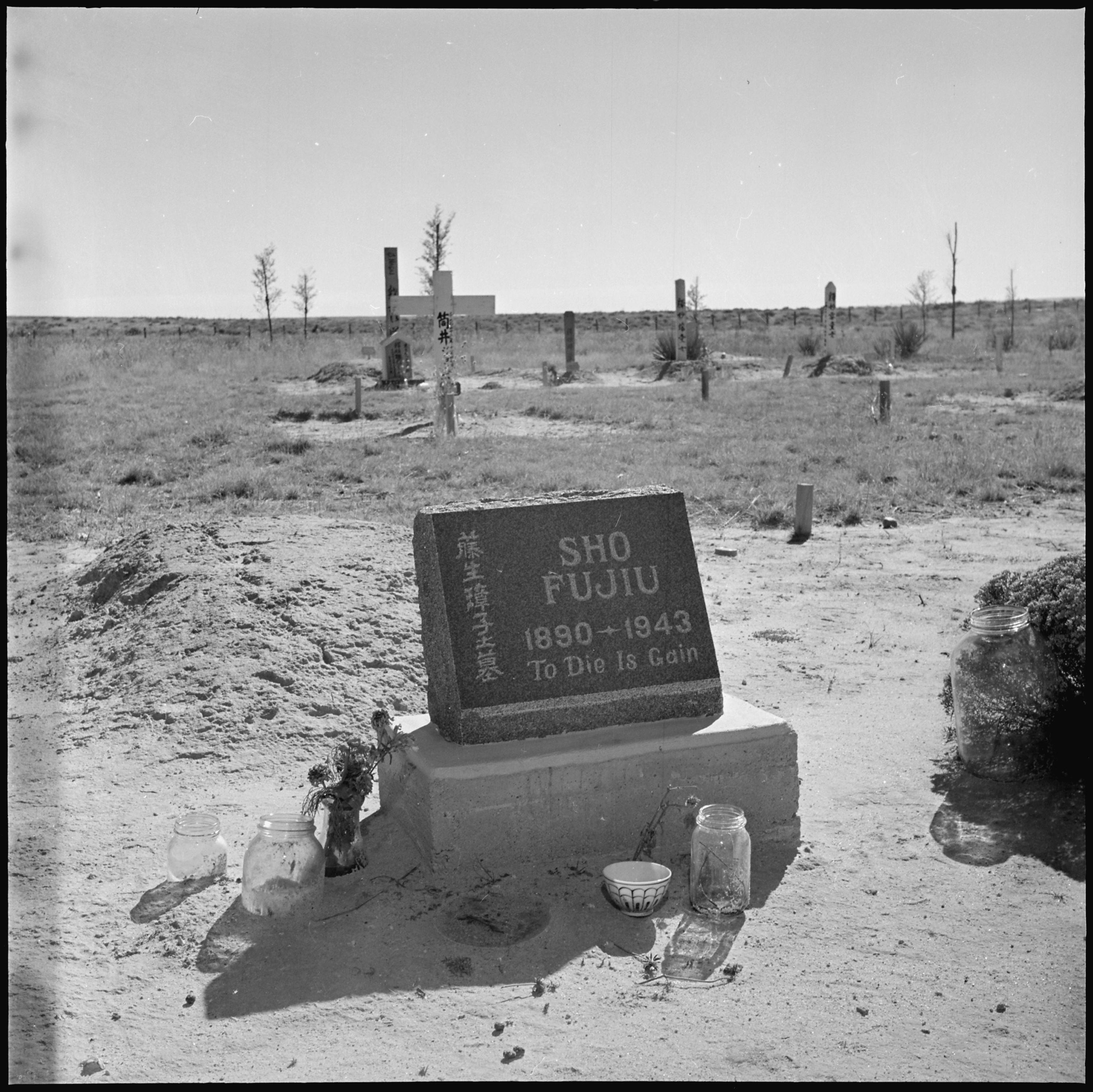 Scope and content: The full caption for this photograph reads: Granada Relocation Center, Amache, Colorado. Not all the center residents will return to their former homes. Many have found permanent "relocation" in the sandy soil on which the tar paper barracks were hurriedly erected. A total of nearly 15,000 evacuees were inducted into the Granada Project, Amache, Colorado, since August 27, 1942, when the first group arrived from the Merced Assembly Center to prepare the camp for those to follow. The Relocation Center, as its name implies, was a temporary residence for those of Japanese ancestry who were transferred from their homes along the west coast under a war emergency measure of 1942. Many of the evacuees during the past three years were able to resettle and find new homes in the Middle West and eastern states. From September 1, 1945, to the closing date of October 15, 3,105 persons have gone back to their former homes or have relocated elsewhere. The last to leave the center a group of 126, left on two special coaches for Sacramento and nearby towns. At the peak of its population, Amache had 7,567 residents. 412 births were recorded and 107 deaths during the three years of its existence.